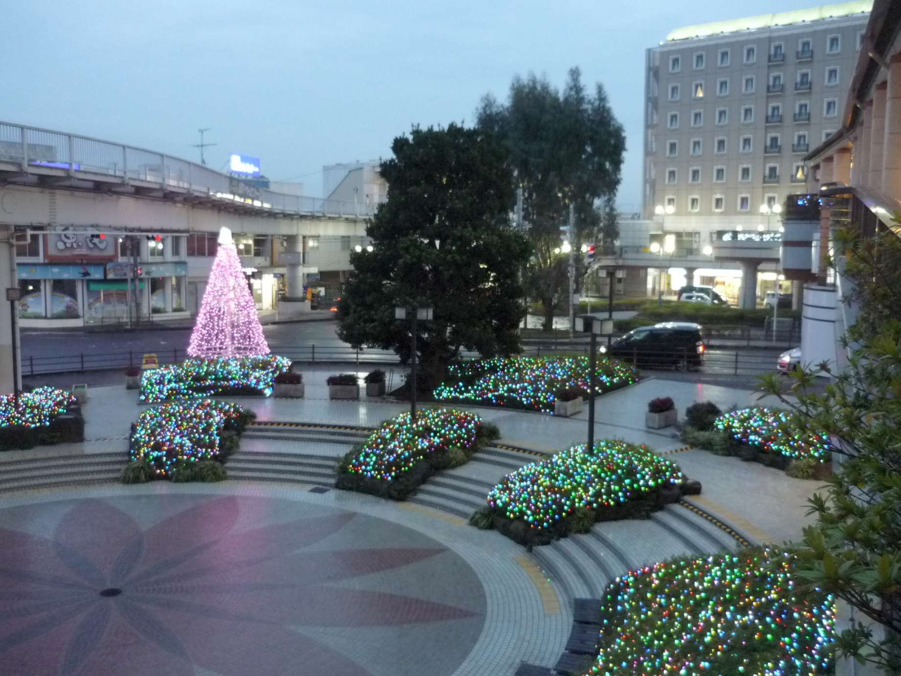 The square between the Wishton Hotel and shopping centre, Yukarigaoka, Chiba, Japan. January 2018.